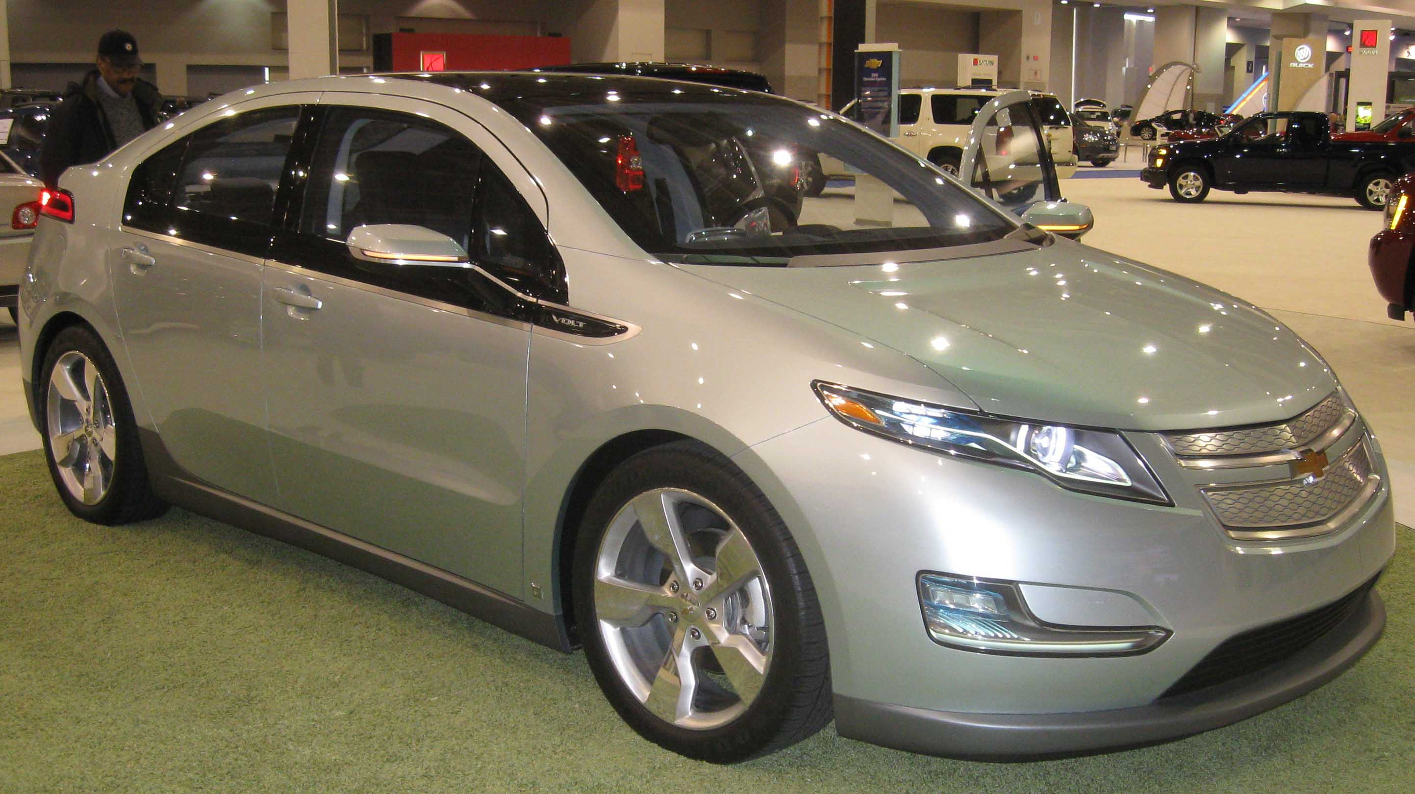 Chevrolet Volt photographed at the 2009 Washington DC Auto Show.